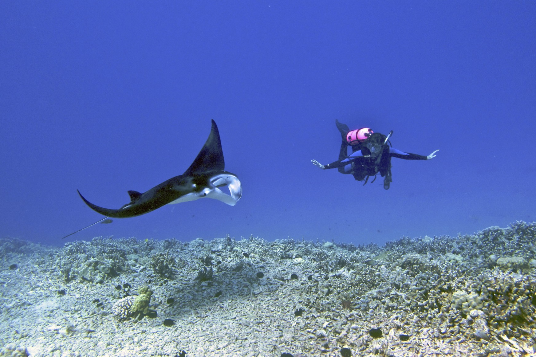 Kona is well known for it's manta ray night dives, but there are also specific locations where the rays congregate during the day. If your diving skills are together, and you know where to go, if you're patient and relentless, you can simply swim out to them and have a little face time, one on one, for as long as your air lasts. Big, small, juveniles and adults, male and female, sometimes one or two, often more. Being in the water alone with these beasts is addicting, and it's about all I do these days. Drive a couple miles down the road, reggae blasting. Suit up, jump in and swim out, and wait for the action to start. It's almost always different mantas. In a typical session I might shoot a couple hundred images, but only a few are keepers. It's a struggle to capture the essence of what it feels like to have a long solo encounter with them; this pic is as close as I've come. Here Nick, a young male, and Isabelle share a moment together. March 1 2012. Lively up yourself! Steve